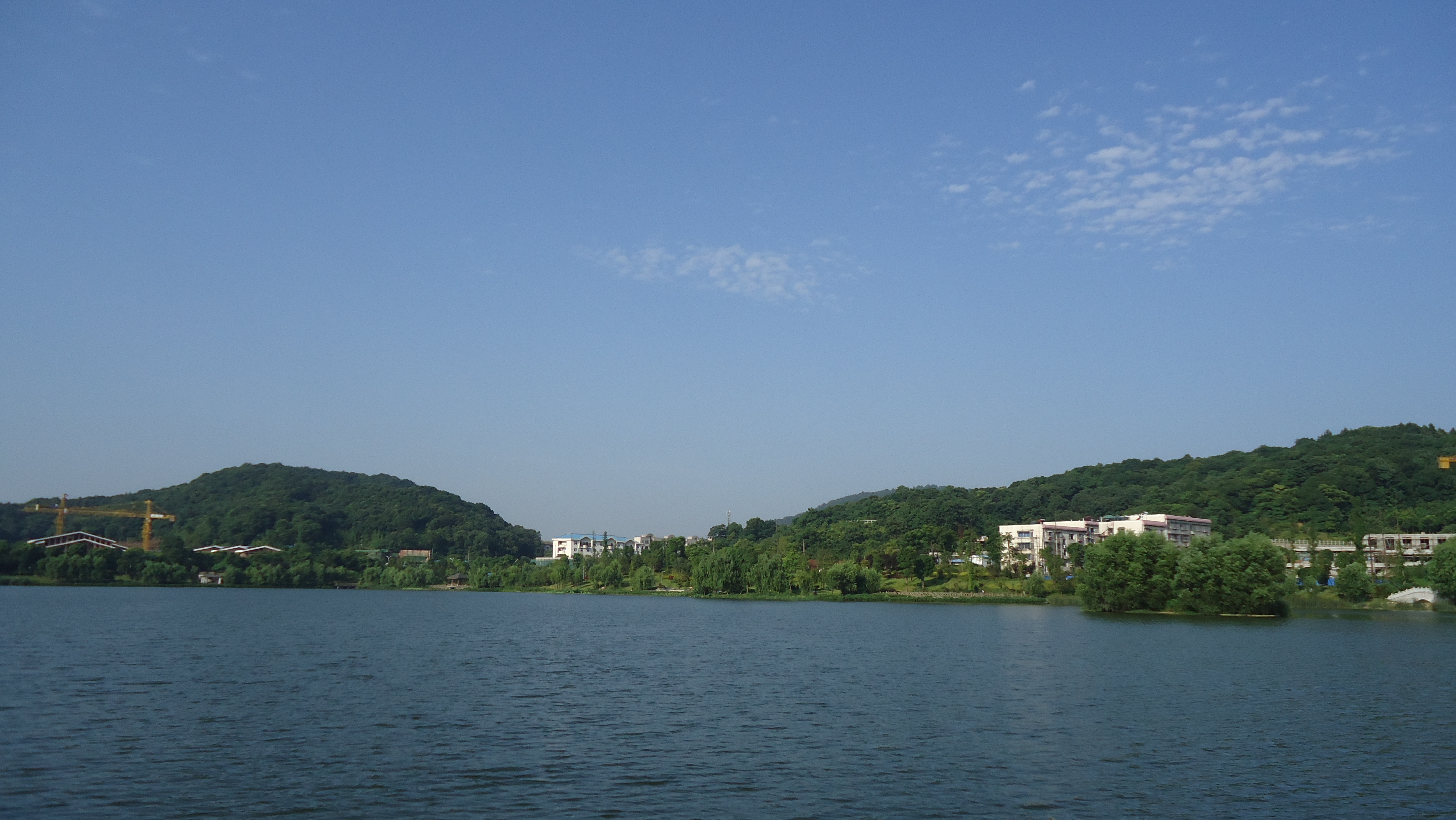 Hunan Normal University,founded in 1938, is a higher education institution located in Changsha, Hunan Province, People's Republic of China. The University is a national 211 Project university, one of the country's 100 key universities in the 21st century that enjoy priority in obtaining national funds.